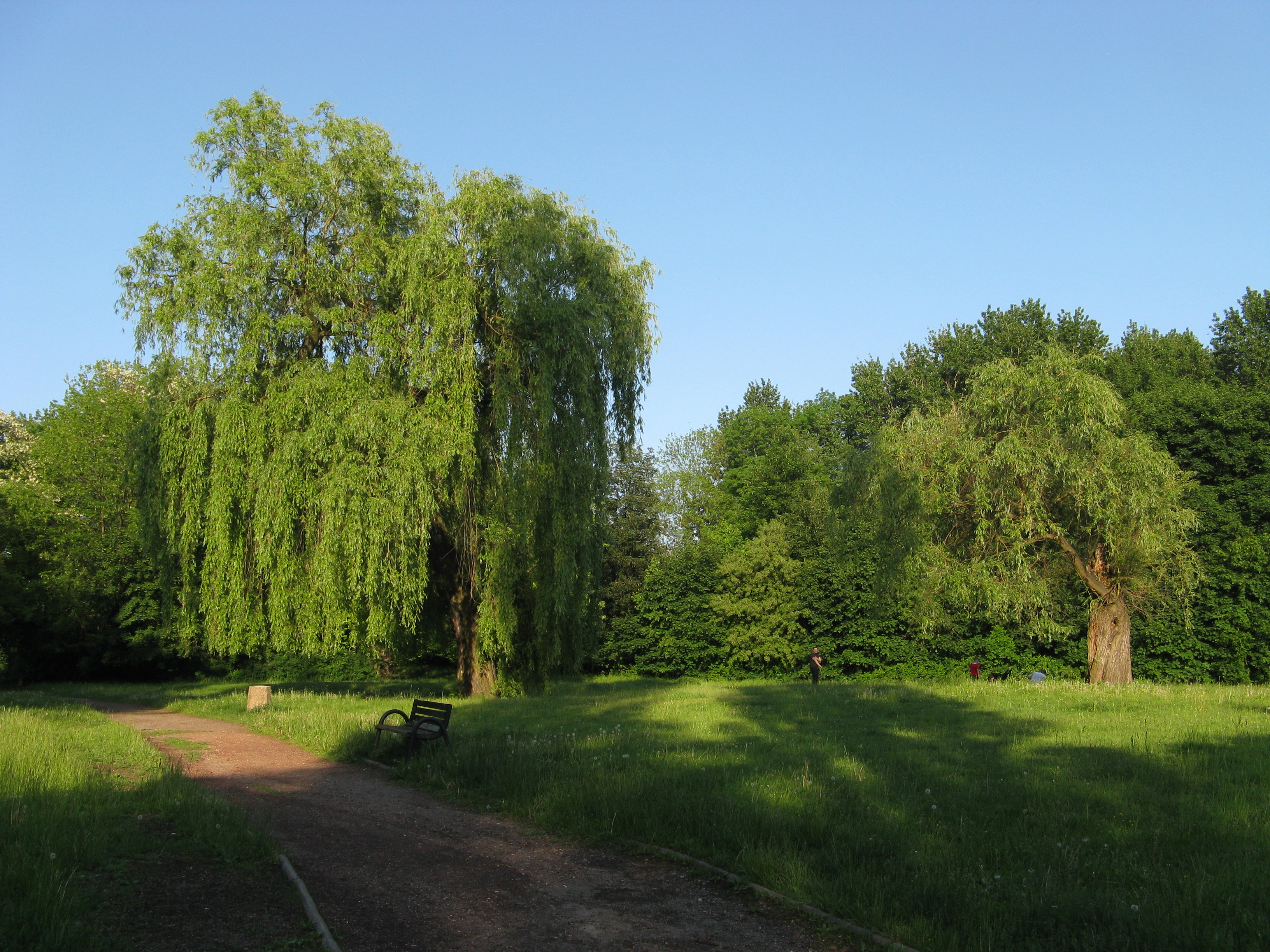 Mickiewicz Park in Bytom, Poland.